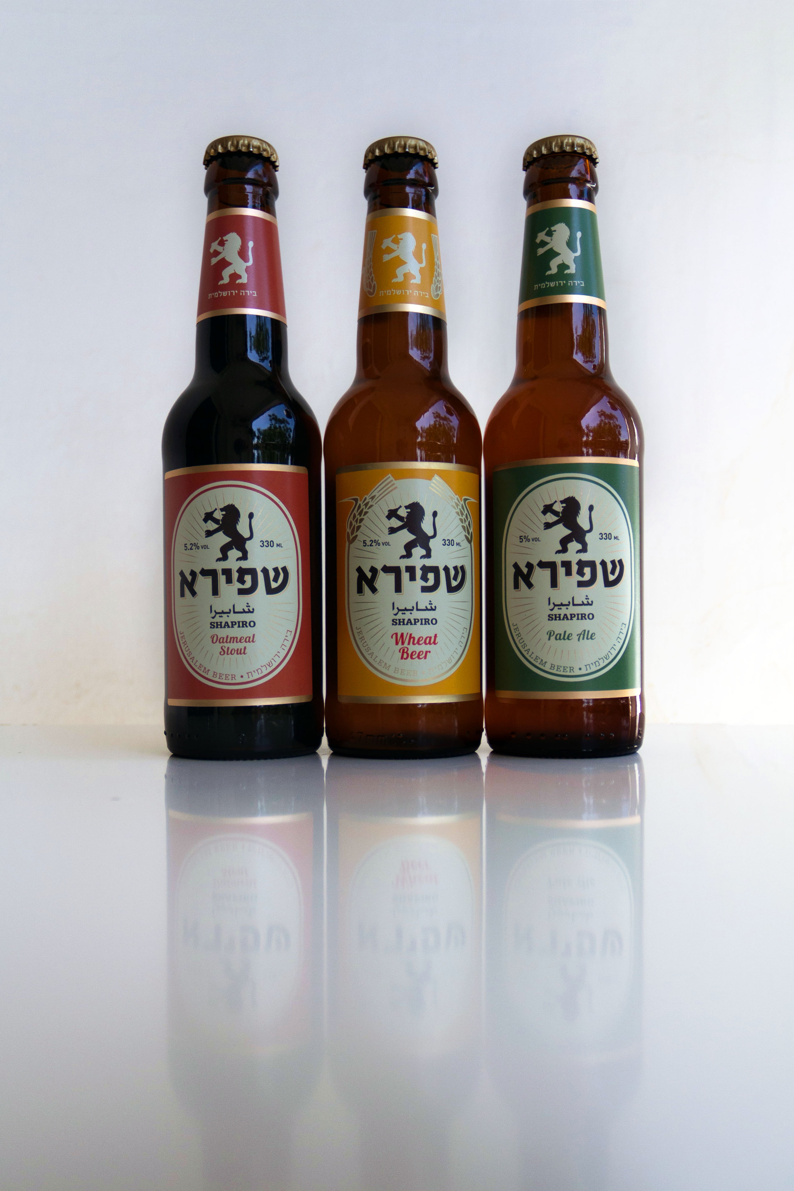 Shapiro Beer bottles